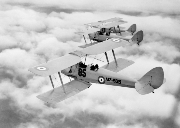 Tiger Moths, No. 3 Elementary Flying Training School, Essendon (Vic.). Over the clouds. From Tiger Moth, N-9603, pilot, 251367, Flying Officer James Connelly Kinnear. The pilots are, front to rear: 314, Flight Lieutenant Eustace Edred Vivian Dillon, Australian Flying Corps. Flight Lieutenant Maurice Wyatt (Royal Air Force) 269358, Flight Lieutenant Wyndham Arthur Jeffrey Baker.